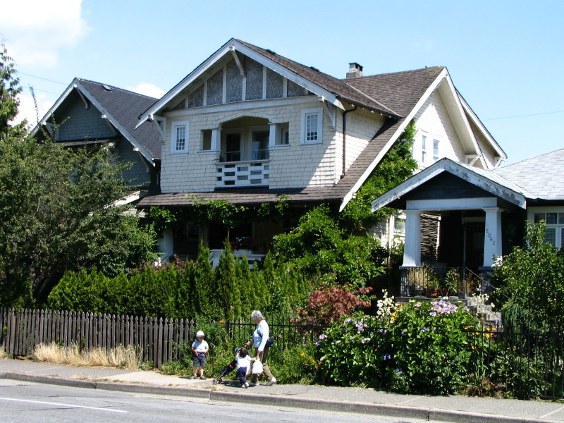 This image was created by me, Flying Penguin of Pacific Spirit Photography of Burnaby, British Columbia, Canada.